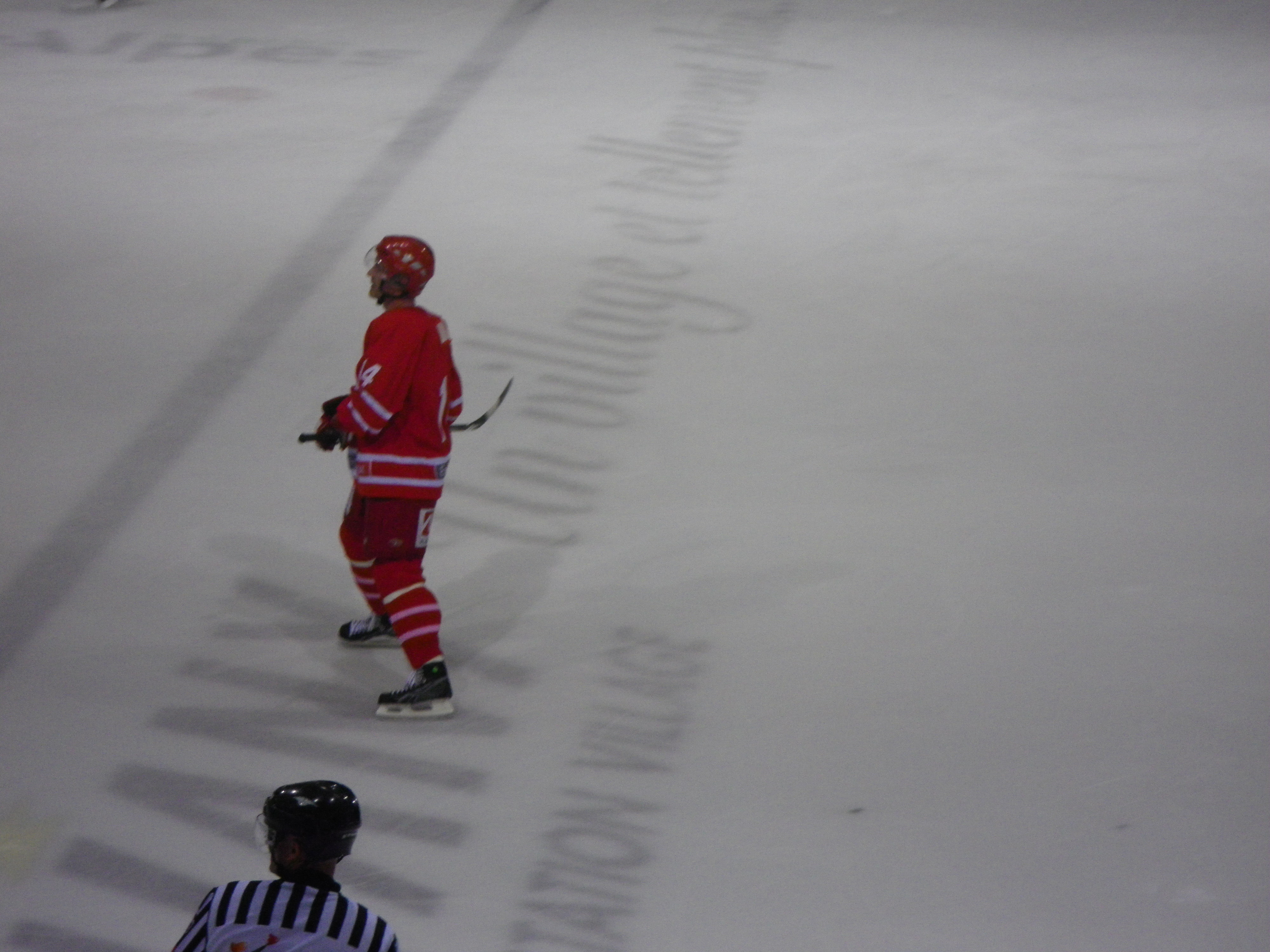 Jesper Duus, danish ice hockey player with team Denmark. Friendly against team France